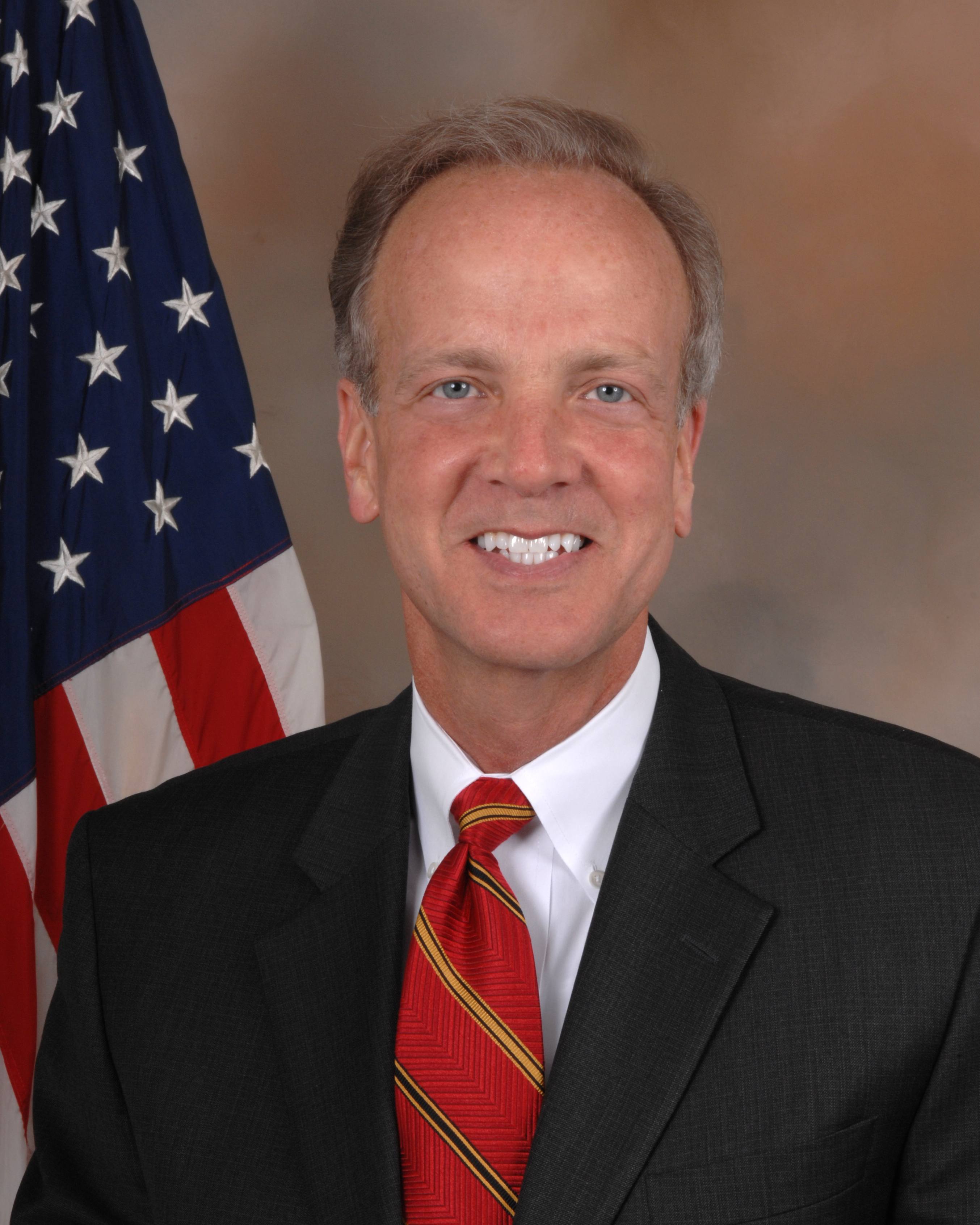 Jerry Moran, member of the United States House of Representatives.